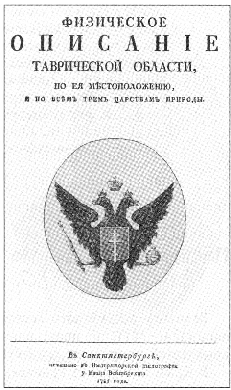 Gablits. The physical description of Tauris ... St. Petersburg. 1785. Cover.